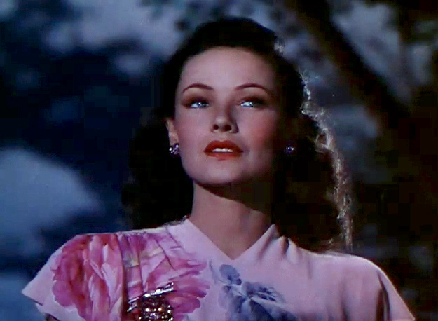 Screenshot of Gene Tierney from the film Leave Her to Heaven.